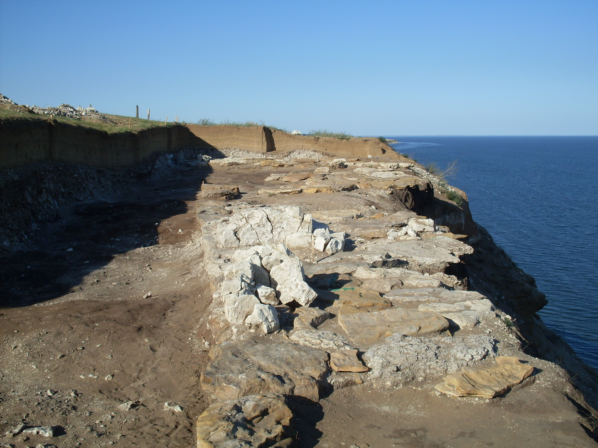 Khazar fortress at Sarkel (Belaya Vyezha, Russia). Excavations 2009